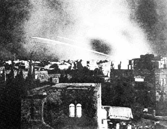 Jerusalem at night, under attack during the Arab-Israeli War of 1948.